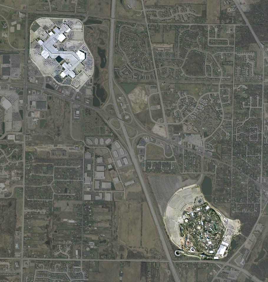 The center of Gurnee, IL, with Gurnee Mills in the upper-left, I-94 running north/south, Grand Avenue (IL 132) running east/west, and Six Flags Great America in the lower-right. The exposed dirt to the northeast of the intersection is the building site of KeyLime Cove, which is scheduled to open in 2008. (see here for a map of where it'll fit into the space) This is a retouched picture, which means that it has been digitally altered from its original version. Modifications: Brightness/contrast selectively decreased to highlight the two properties. The original can be found here